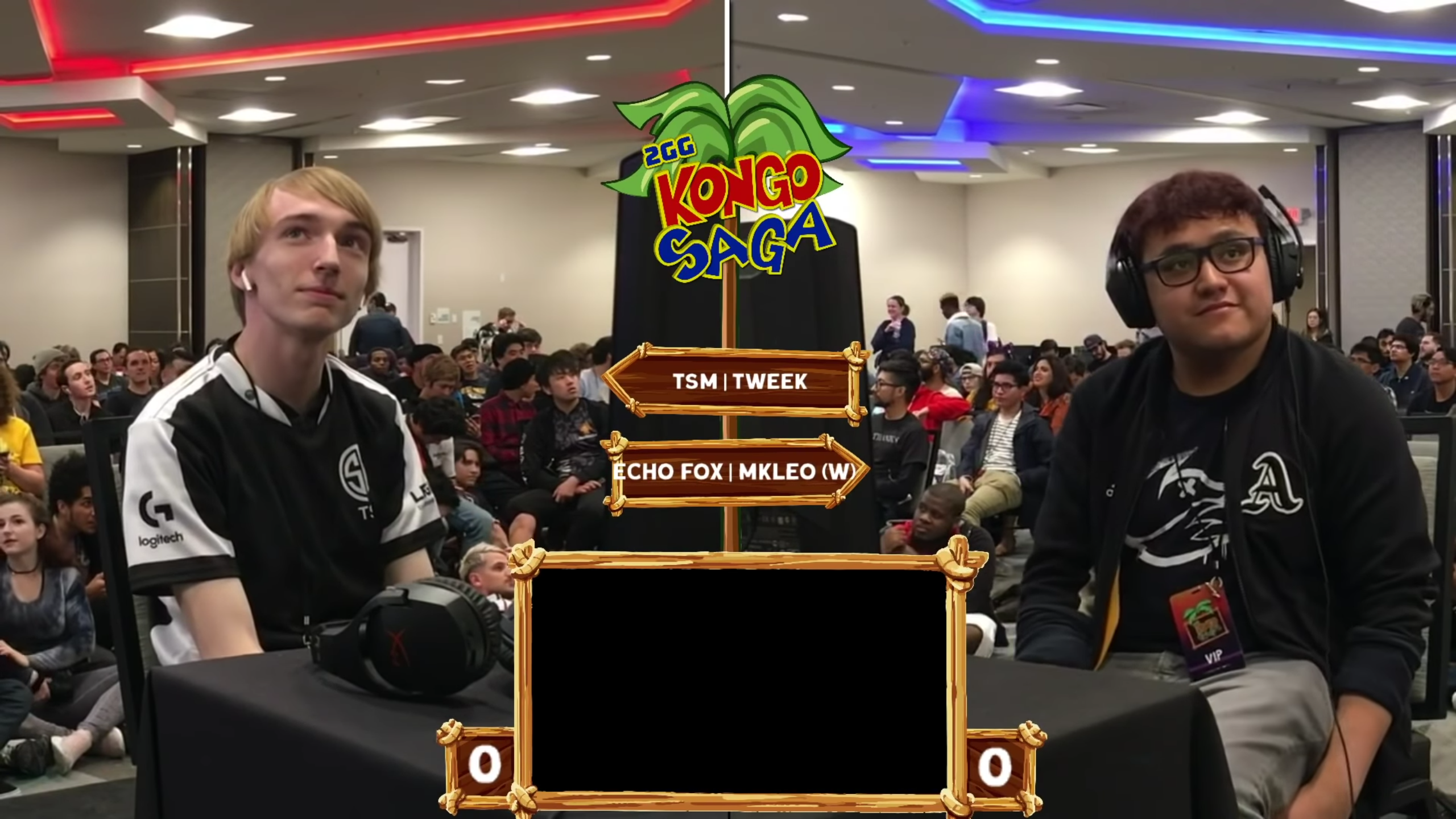 Still from the broadcast of 2GG Kongo Saga